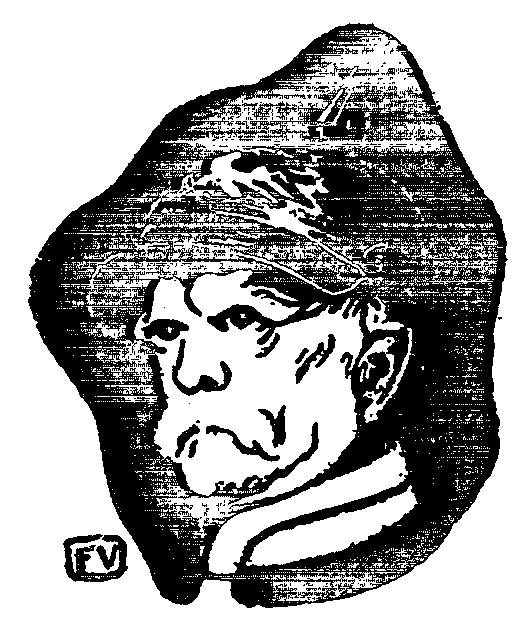 Otto von Bismarck (1815-1898) by Félix Valloton (1865-1925)